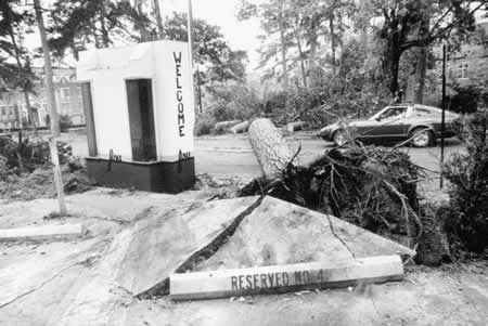 Damage after Hurricane Kate (Courtesy of State of Florida) (Note: the photos are on the American Red Cross website-see link above)